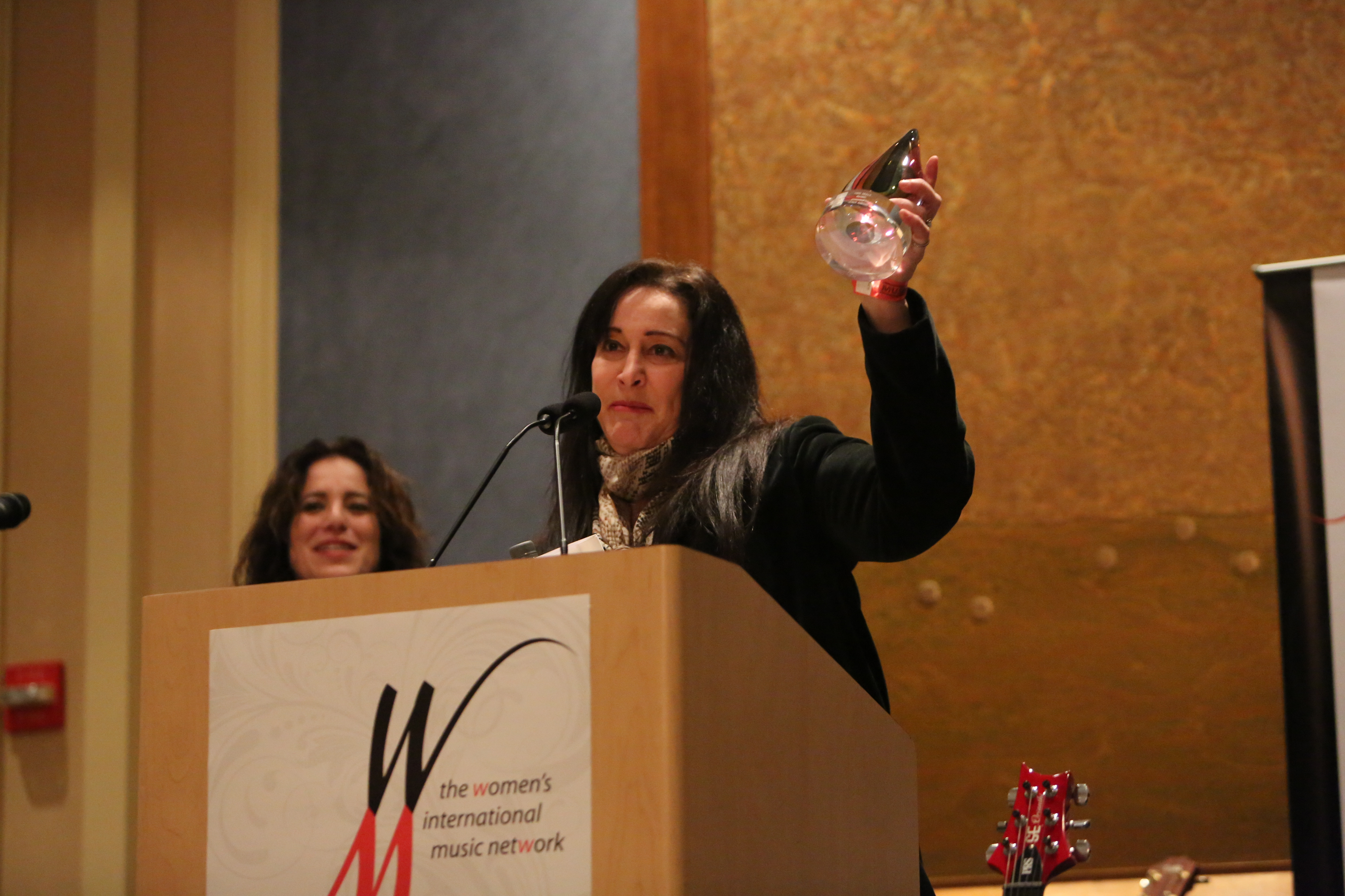 Producer, songwriter and artist Holly Knight accepting her She Rocks "Mad Skills" award